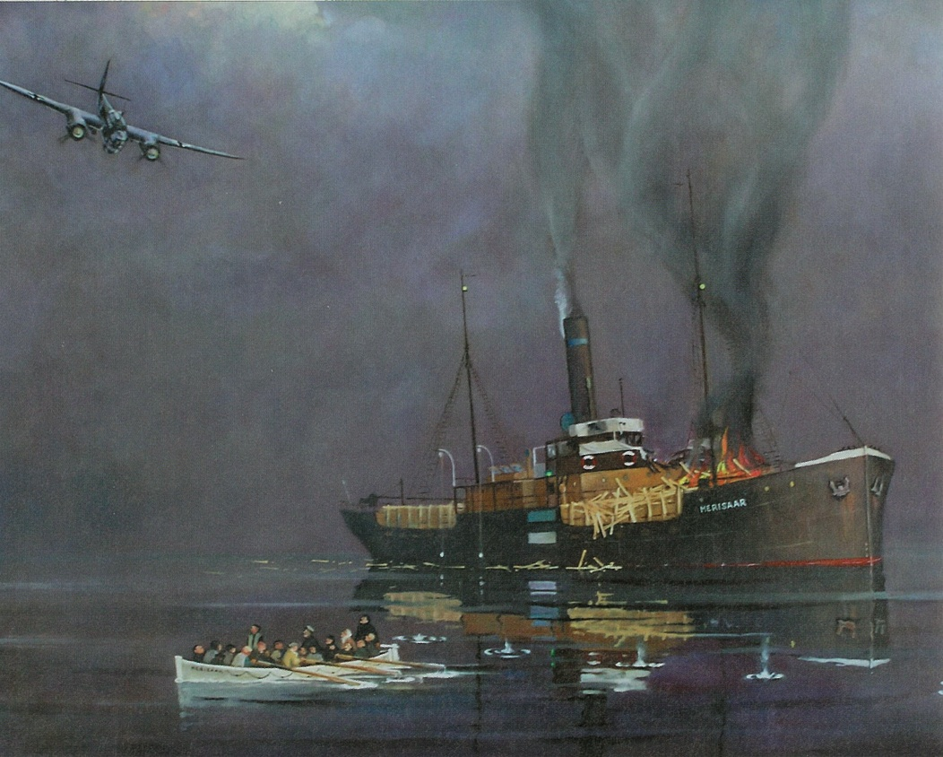 Painting of a German warplane's attack on SS Merisaar in July 1940.